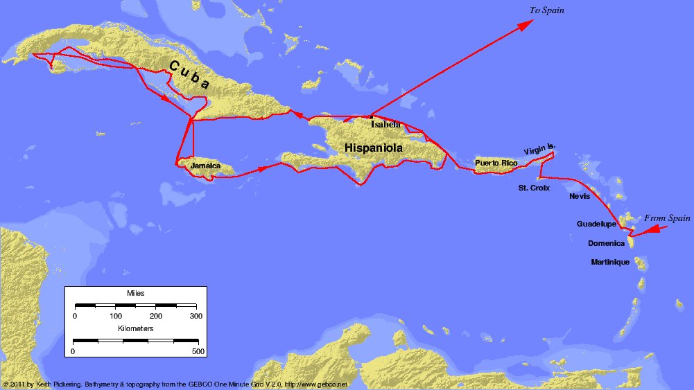 Map of the second voyage of Christopher Columbus, 1493-1496.